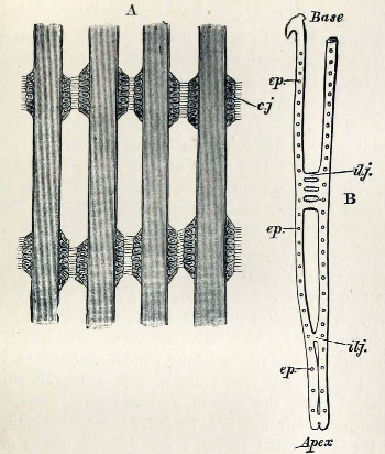 Gills of the blue mussel (Mytilus edulis); Mytilidae